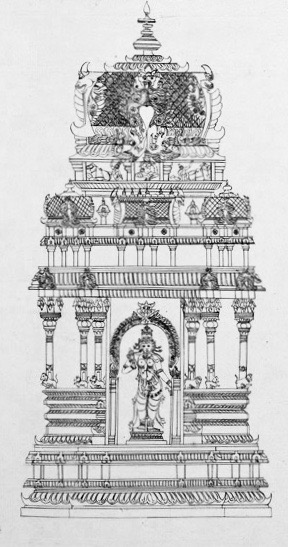 From the source, Pen and ink drawing of the Minakshi shrine in the Minakshi Sundareshvara Temple in Madurai from an 'Album of 51 drawings (57 folios) of buildings, sculpture and paintings in the temple and choultry of Tirumala Nayyak at Madura. c.1801-05', by an anonymous artist working in the South India/Madurai style, c. 1801-1805. Each picture is inscribed with a title and a number in ink. The Minakshi Sundareshvara Temple complex contains two main shrines; one dedicated to Shiva and one to his consort Minakshi, an ancient local divinity. The construction of this temple-town was made possible by the wealth and power of Tirumala Nayak (1623-1659). He was the most prolific builder of a long line of Nayaka kings, a dynasty who ruled a large portion of Tamil country in the 16th and 17th centuries. The whole site, which mostly dates from the 17th century, is enclosed within a rectangular precinct which covers six hectares and has 11 huge gopurams or towers, the biggest of which mark four entrances from the four cardinal points. The Minakshi shrine stands in its own enclosure within which are several subsidiary shrines. One of them is the 'bed chamber' where the image of Sundareshvara is brought every night. The drawing depicts the image of the goddess housed in the shrine.